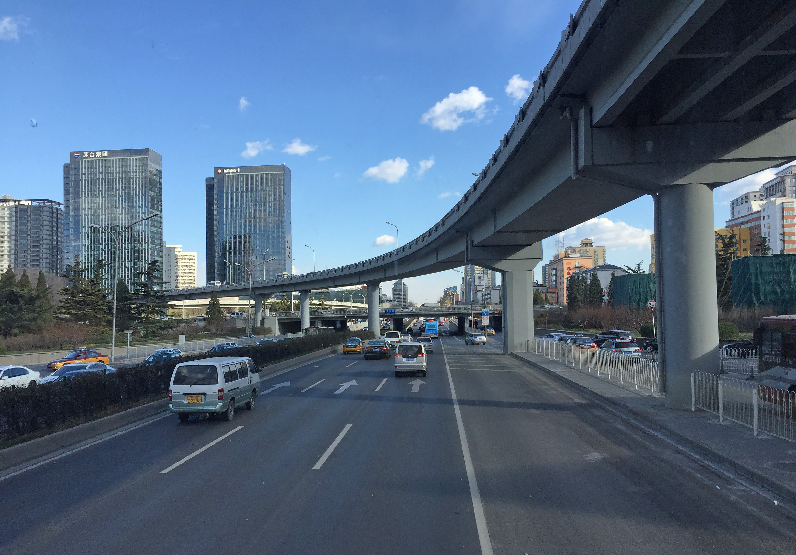 Taken from the upper deck of T8.